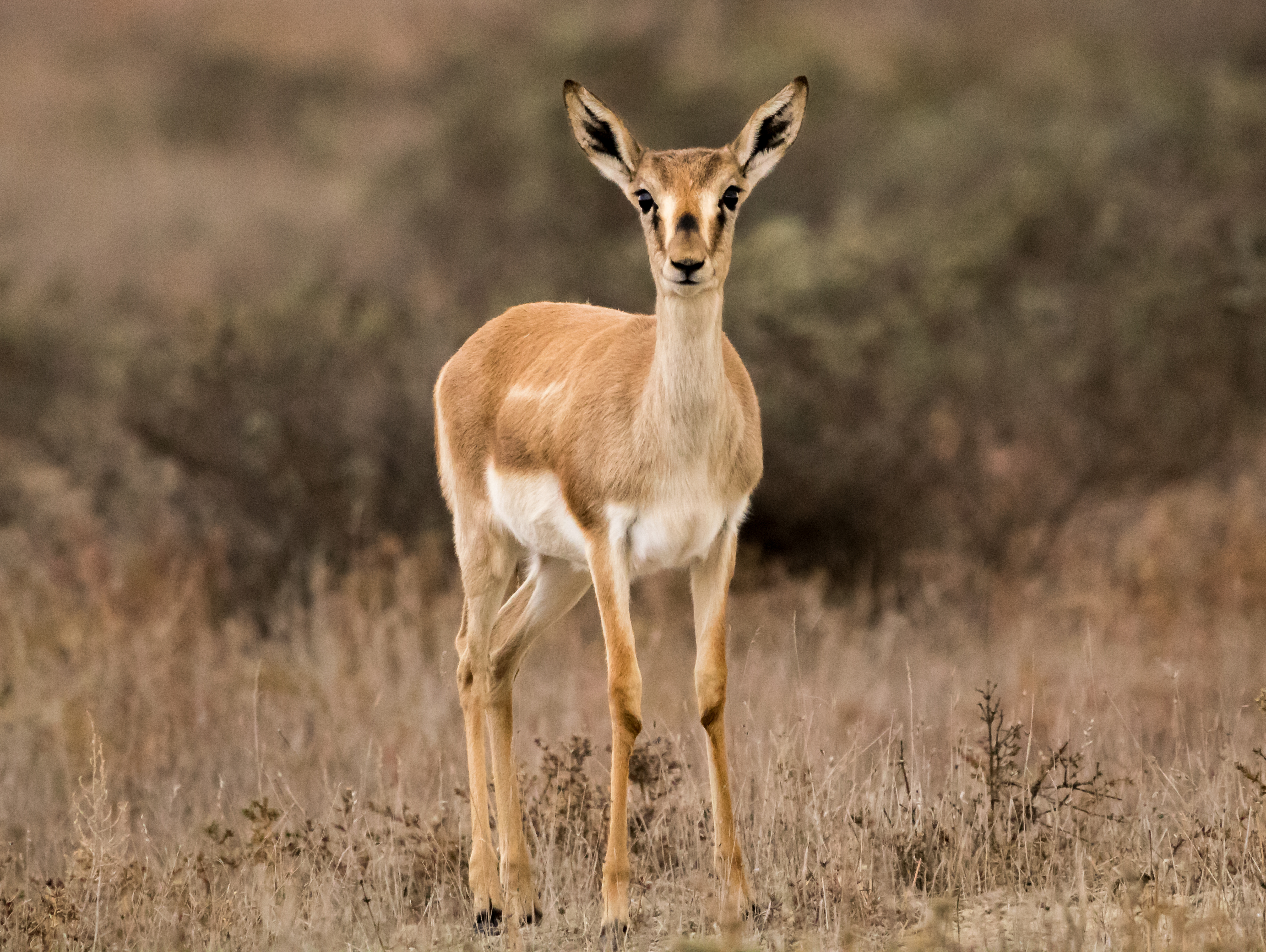 Female goitered gazelle (Gazella subgutturosa) at the Shirvan National Park, AzerbaijanAzərbaycanca: Ceyran. Şirvan Milli Parkı